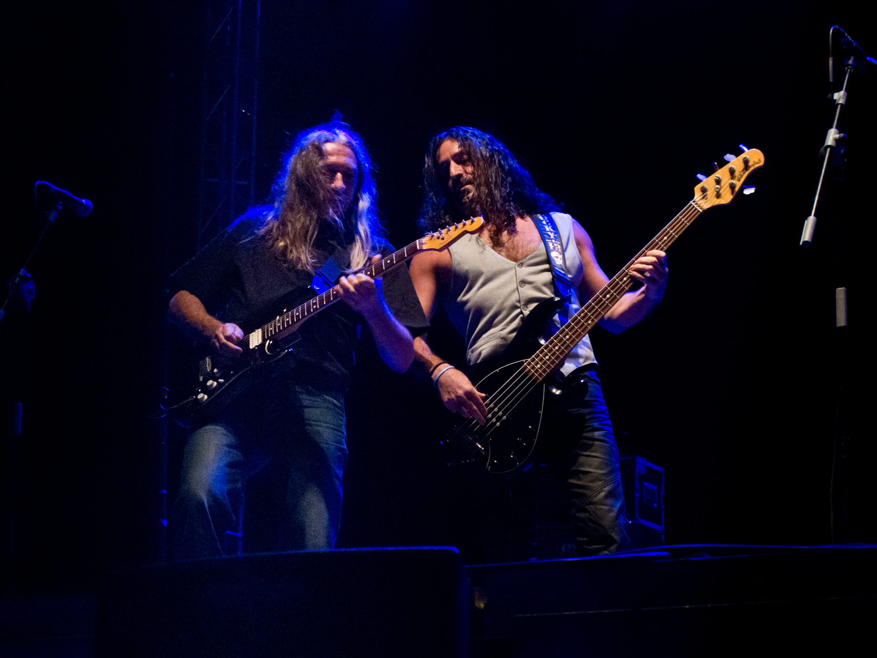 Bassist Rafa J. Vegas with Rosendo in 2012.